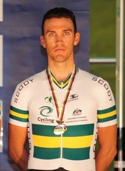 Australian cyclist Sean Finning, Australian Paralympic (shadow) Team athlete. Copy of medal photo, date unknown